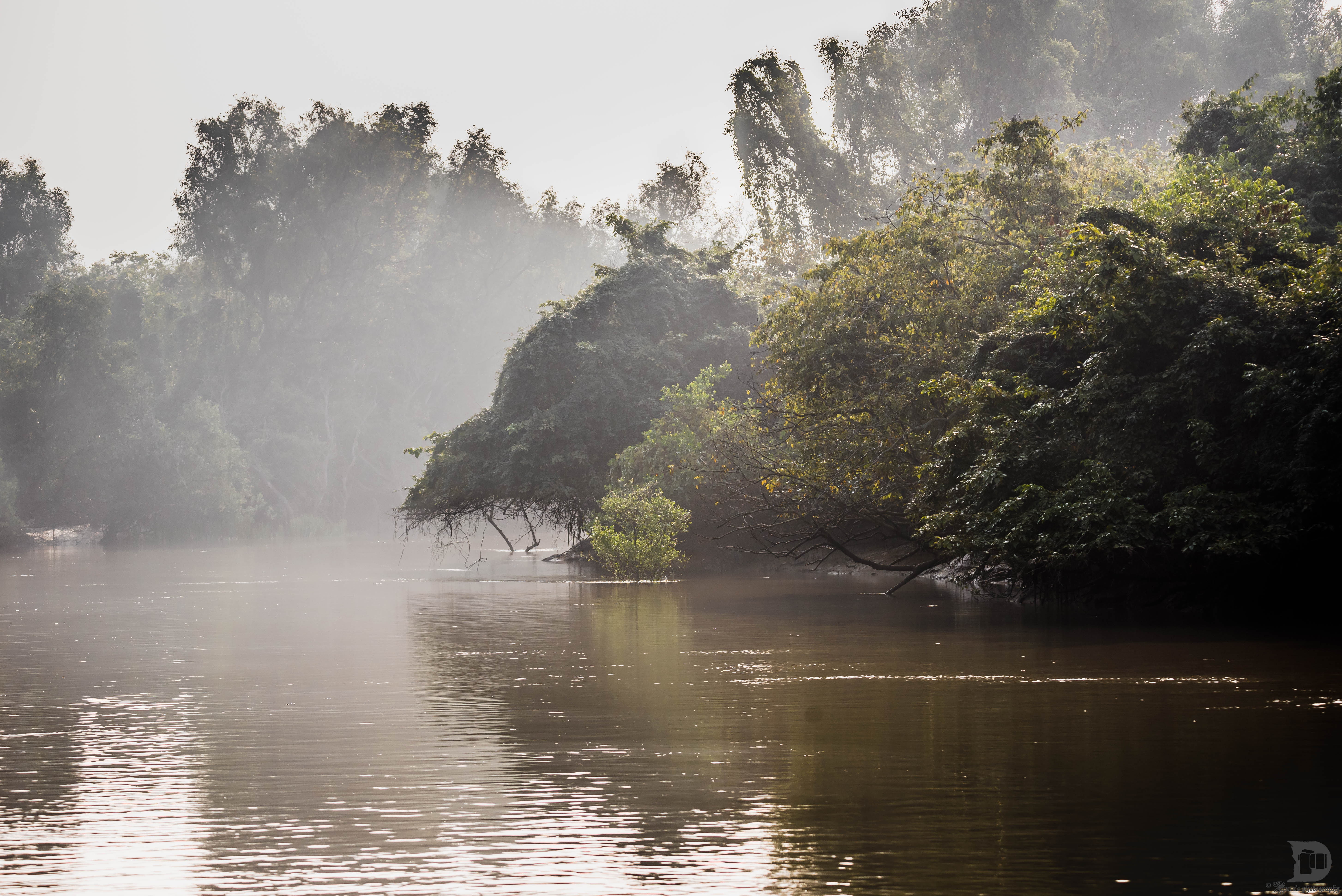 Bhitarakanika National Park